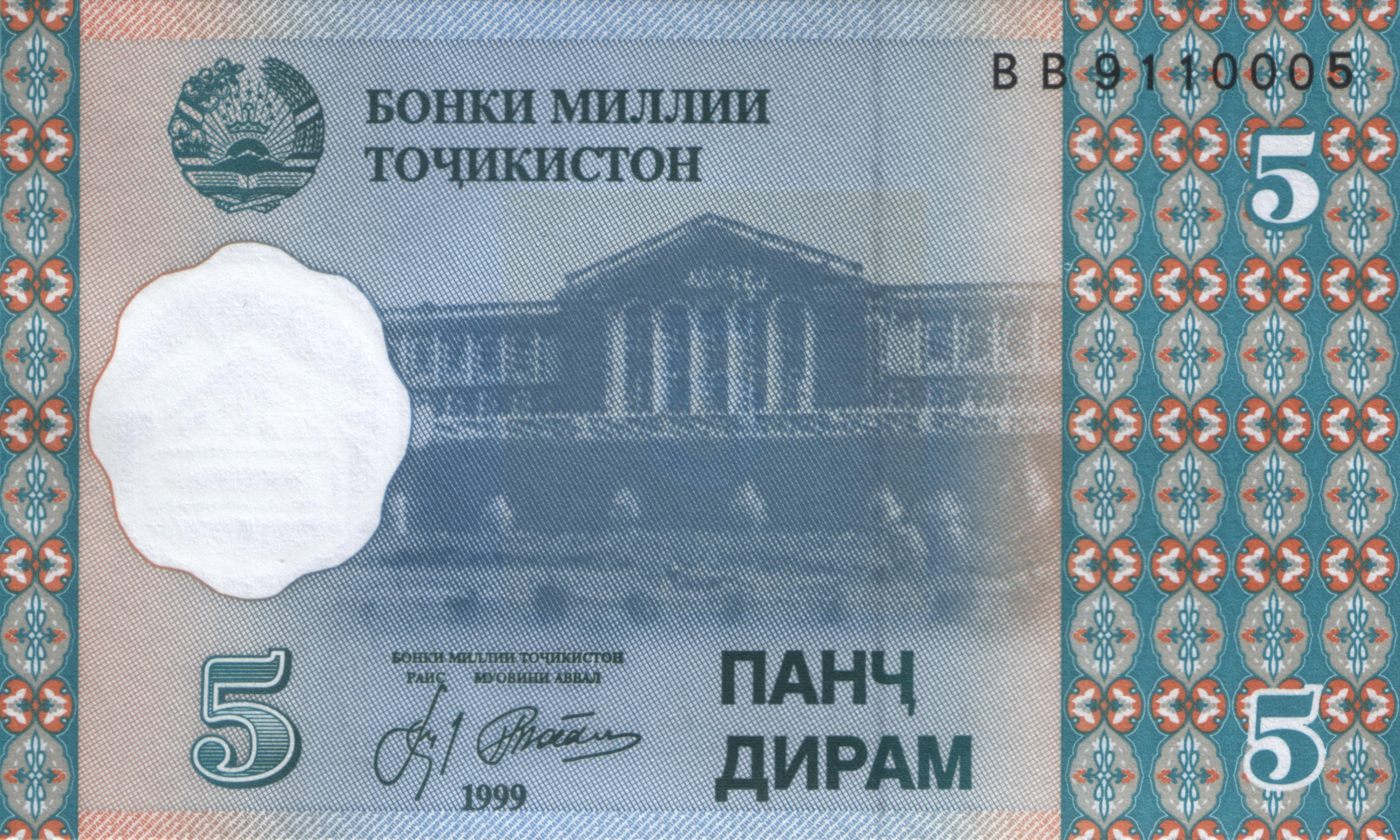 5 dirams of Tajikistan (1999)